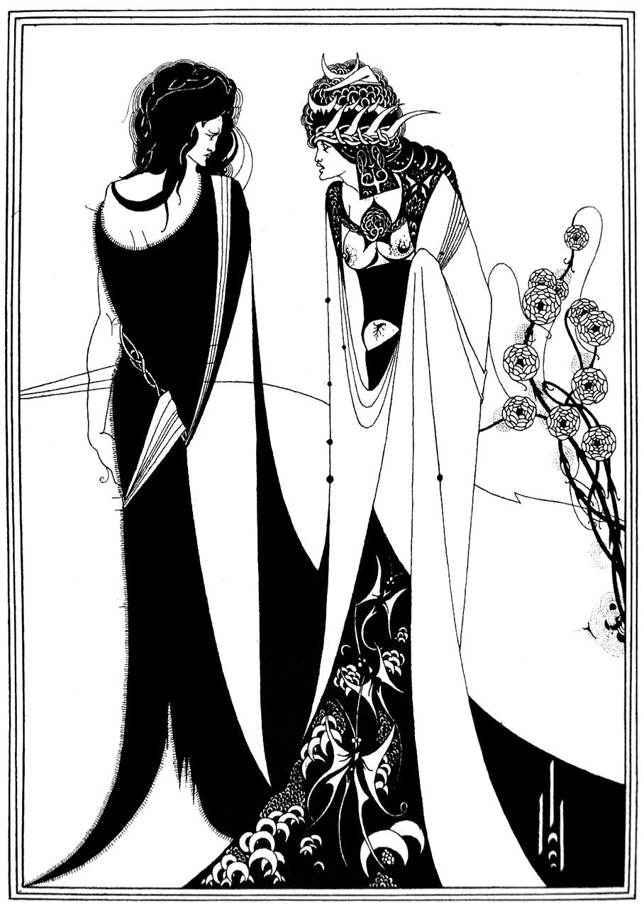 Aubrey Beardsley illustration for Salome by Oscar Wilde